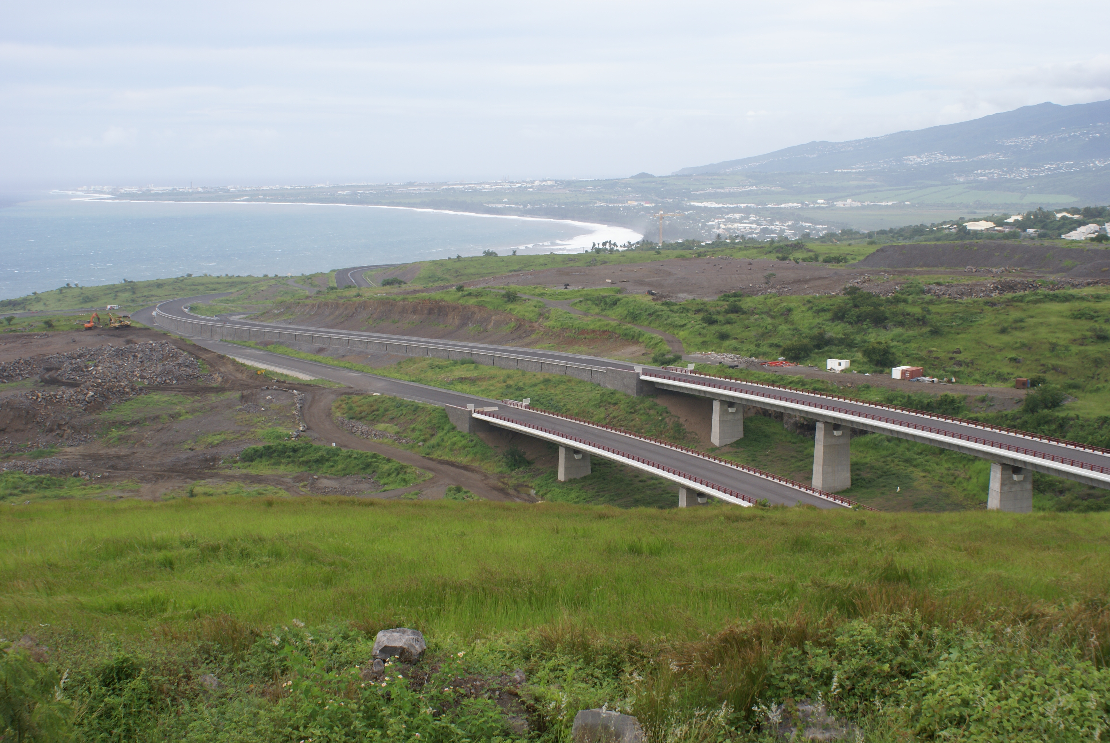 Workings of the Route des Tamarins on Réunion island : the viaduct over Ravine Fleurimont at Saint-Paul